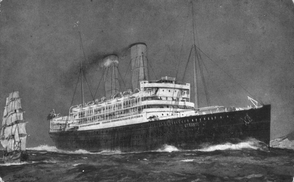 Painting of the passenger ship Otranto This ship was sunk in a collision with S.S. Kashmia in the Irish Sea on 12 May 1918. Approximately 340 passengers and 85 crew were lost in the collision. (Description supplied with photograph).